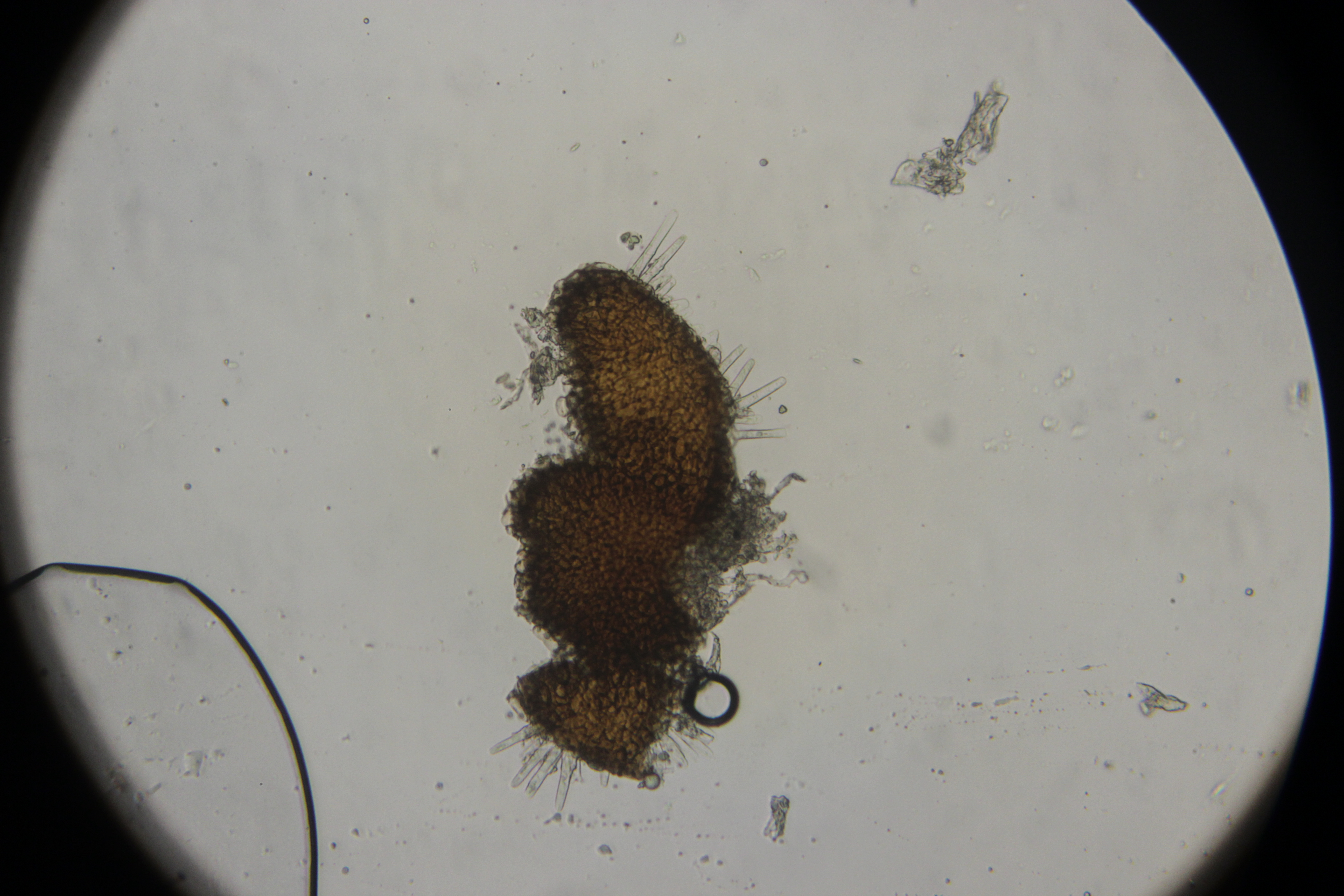 Sawadea bicornis on Field Maple - Acer campestre